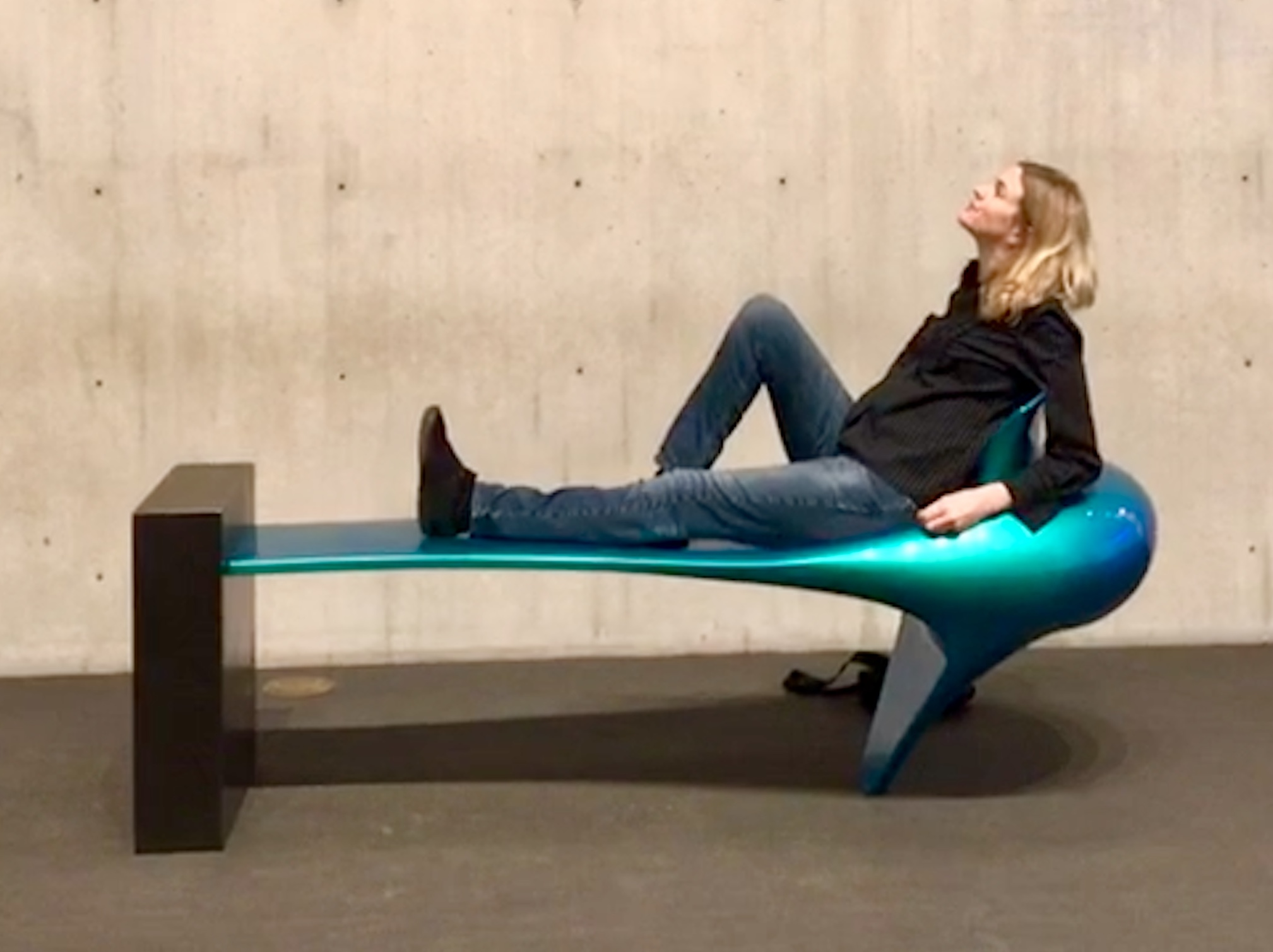 Oni Buchanan